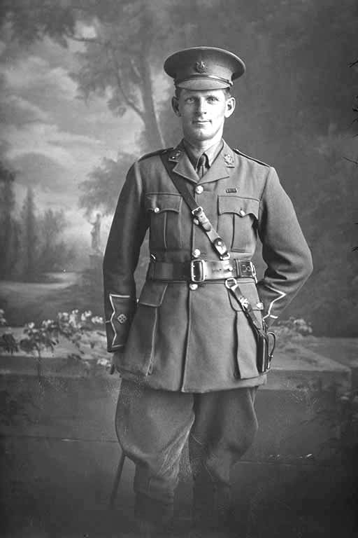 3/4 portrait of 2nd Lieutenant Vivian Harold Potter, Reg No 17938, of the New Zealand Army Service Corps, wearing campaign medals.